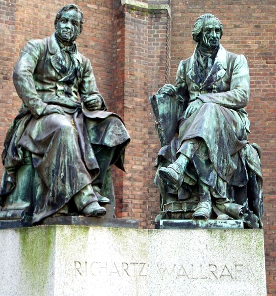 Collage of two images: Statue of Johann Heinrich Richartz in front of Museum für Angewandte Kunst (Köln), Cologne, Germany and Statue of Ferdinand Franz Wallraf in Front of Museum für Angewandte Kunst (Köln), Cologne, Germany